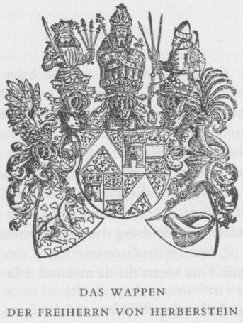 Coat of arms of Baron Sigismund von Herberstein. Two of his most important diplomatic missions appear on the coat of arms in the form of images "Muscovite" and "Turk"